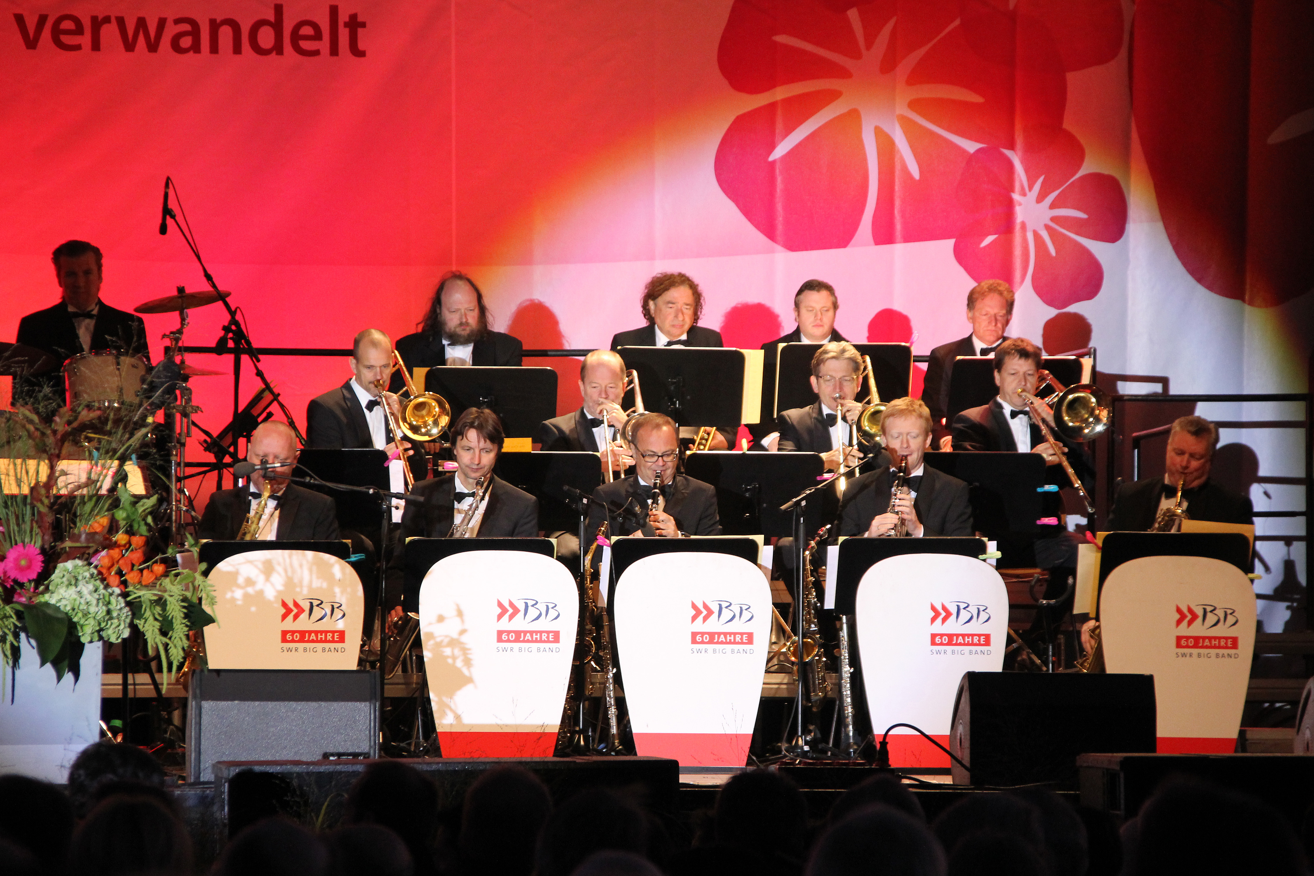 Federal Horticultural Show 2011 in Koblenz